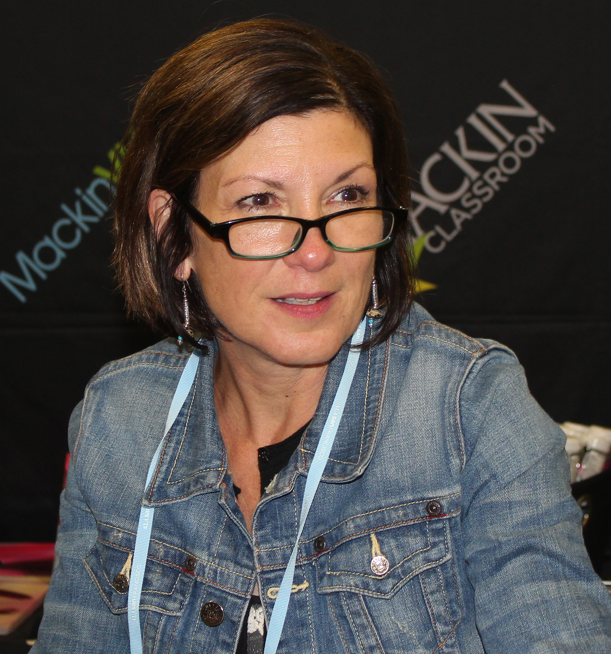 Candace Fleming, an American writer of children's books.